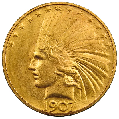 Obverse of 1907 "wire rim" eagle